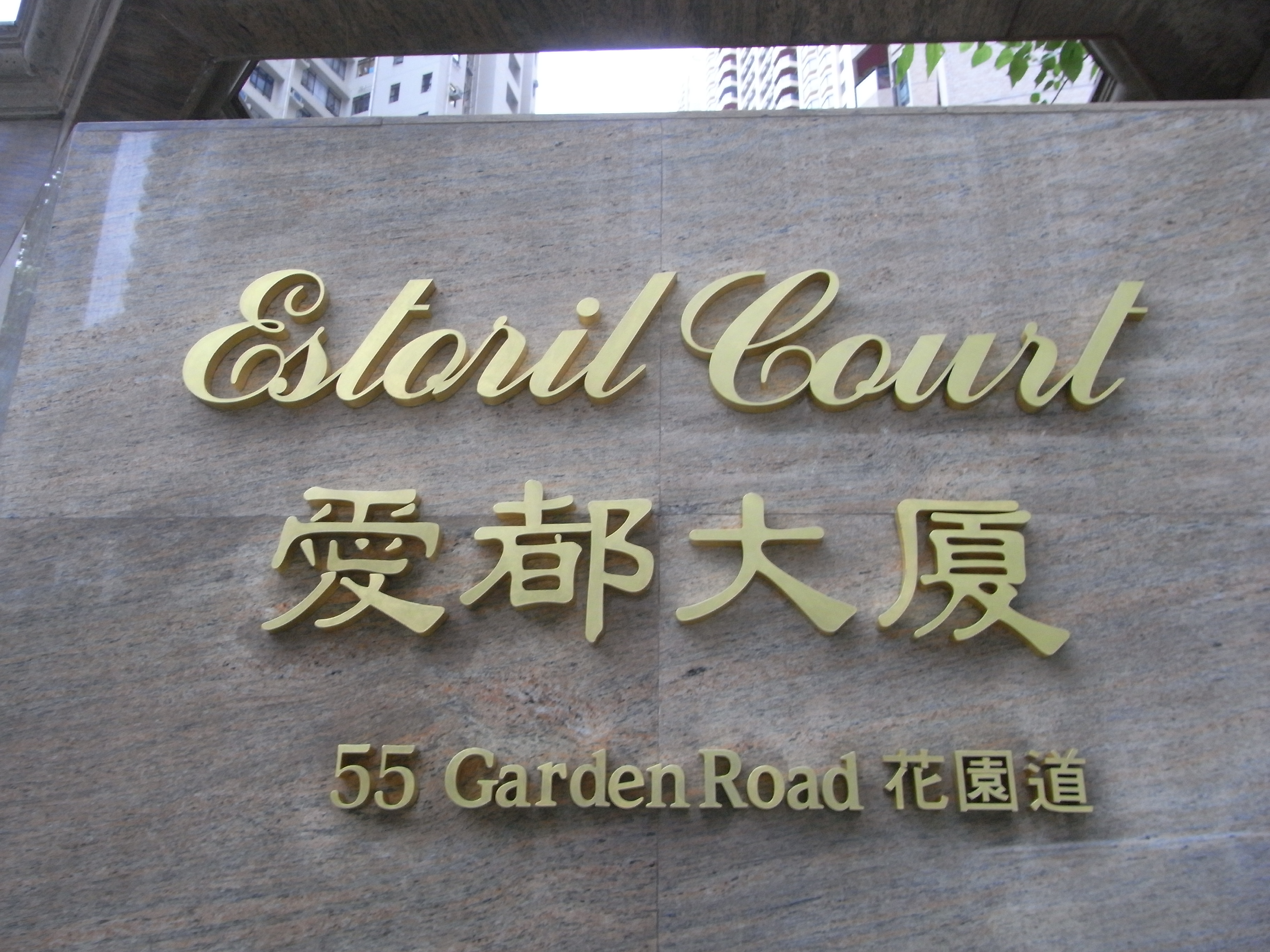 香港島中環zh:半山區馬己仙峽道近花園道55號 - 愛都大廈